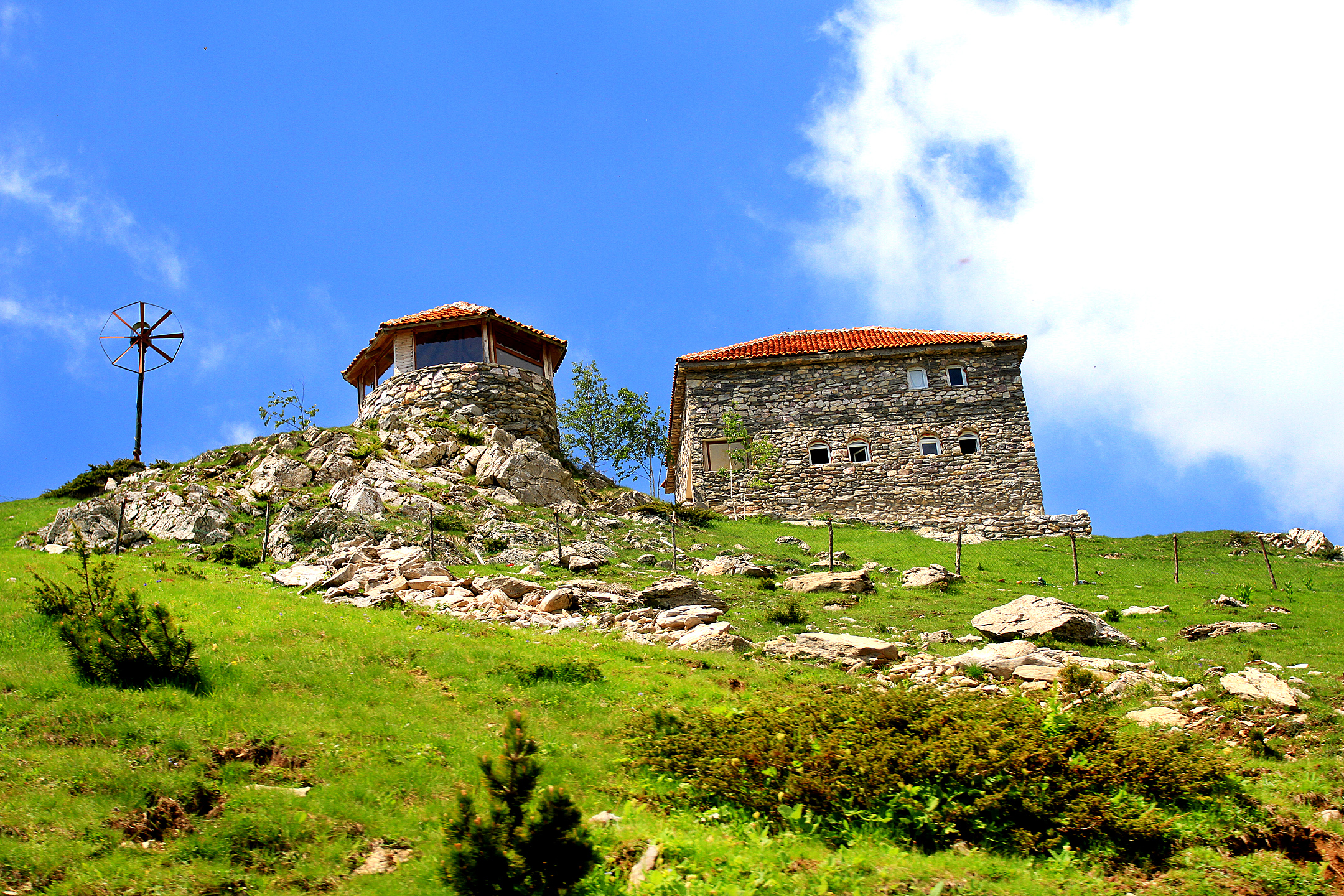 The kullas build in Dukagjini style